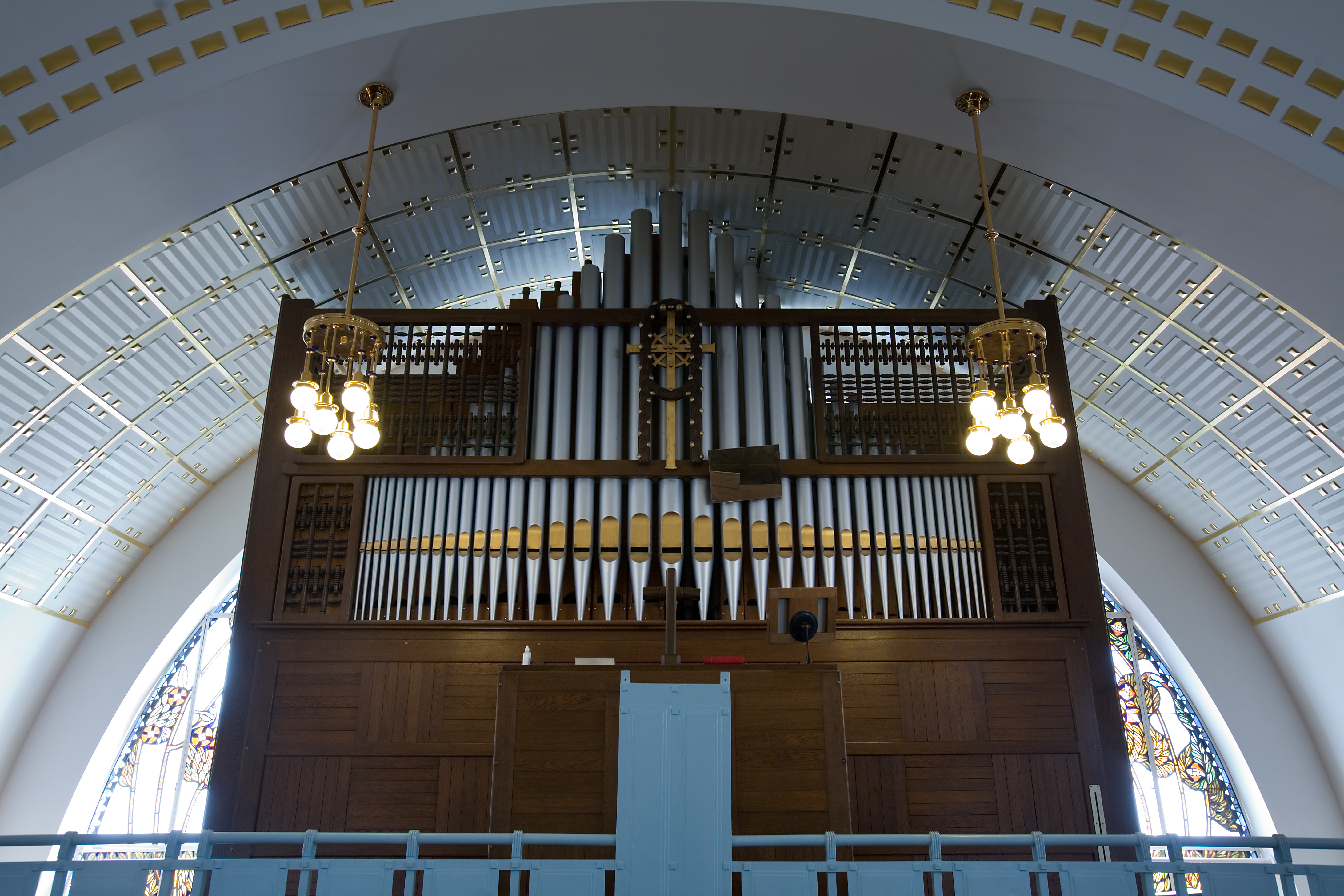 Otto Wagner's St Leopold Church, Vienna, Austria